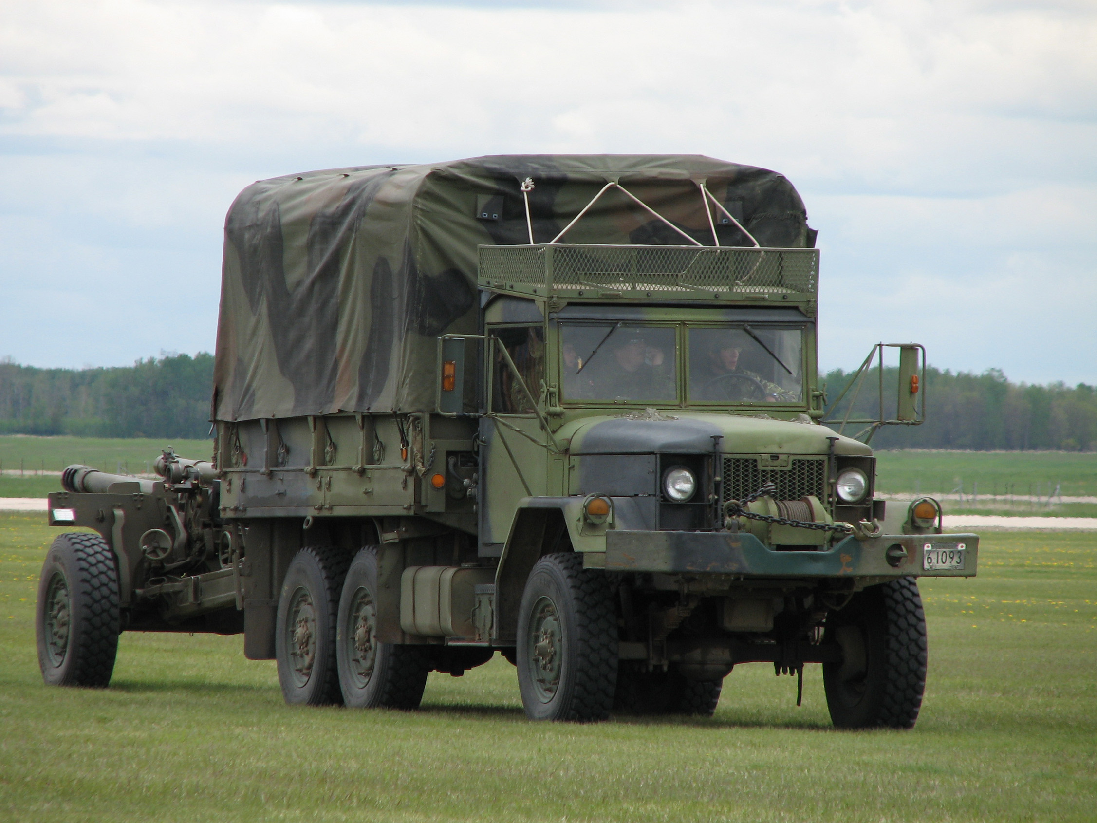 Bombardier MLVW during a Canadian Forces army demonstration at the 2009 Portage-la-Prairie air show. It is towing a C3 howitzer.